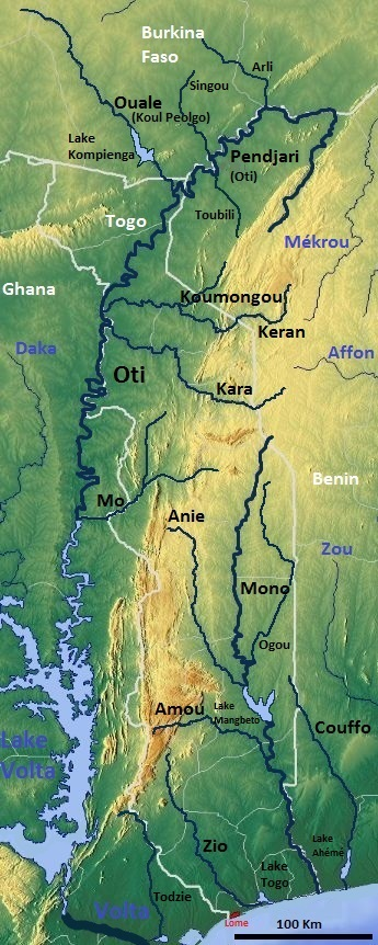 Togo with rivers OSM